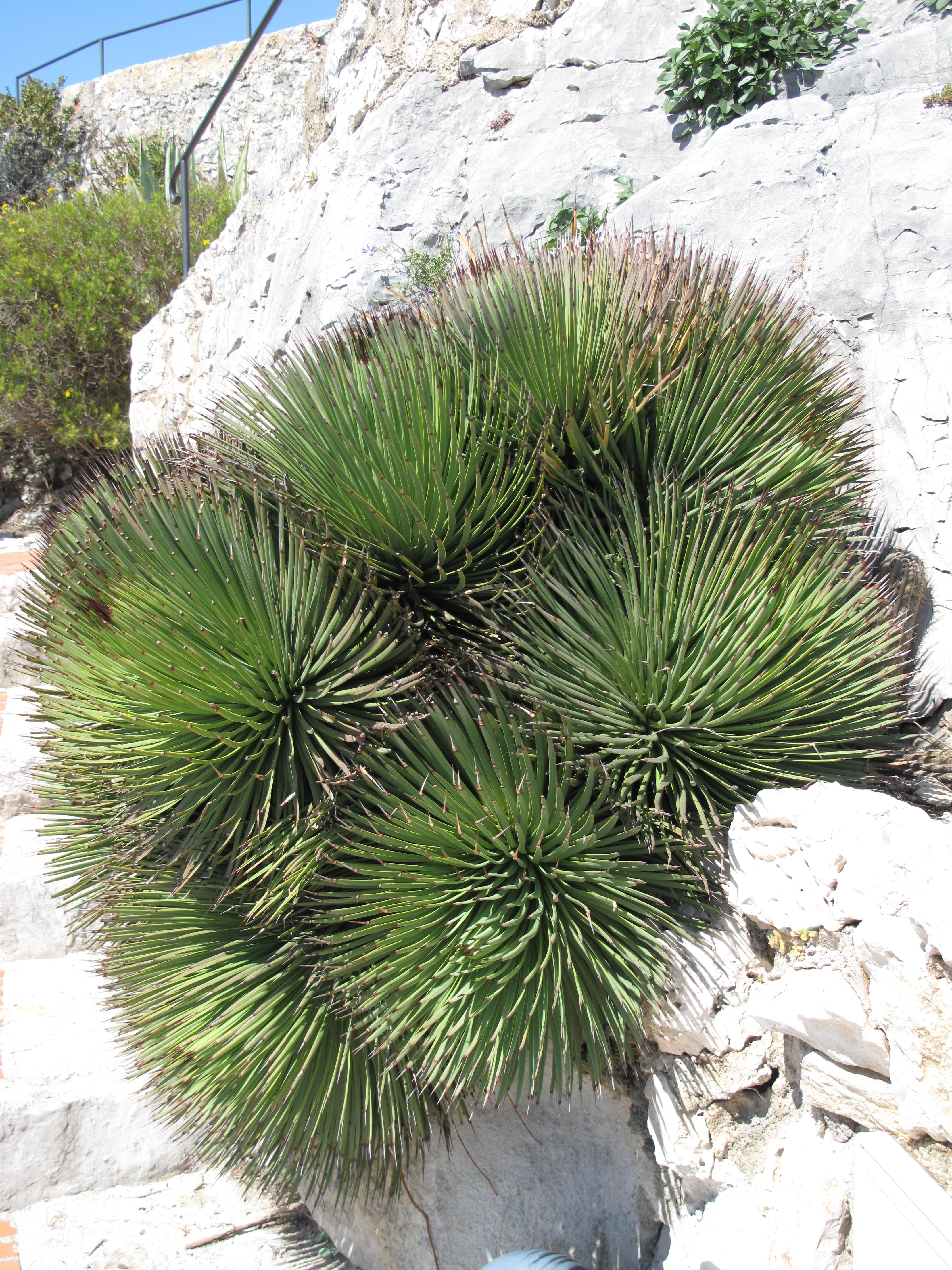 Agave Stricta in the exotic garden of Eze (France : Alpes maritimes)